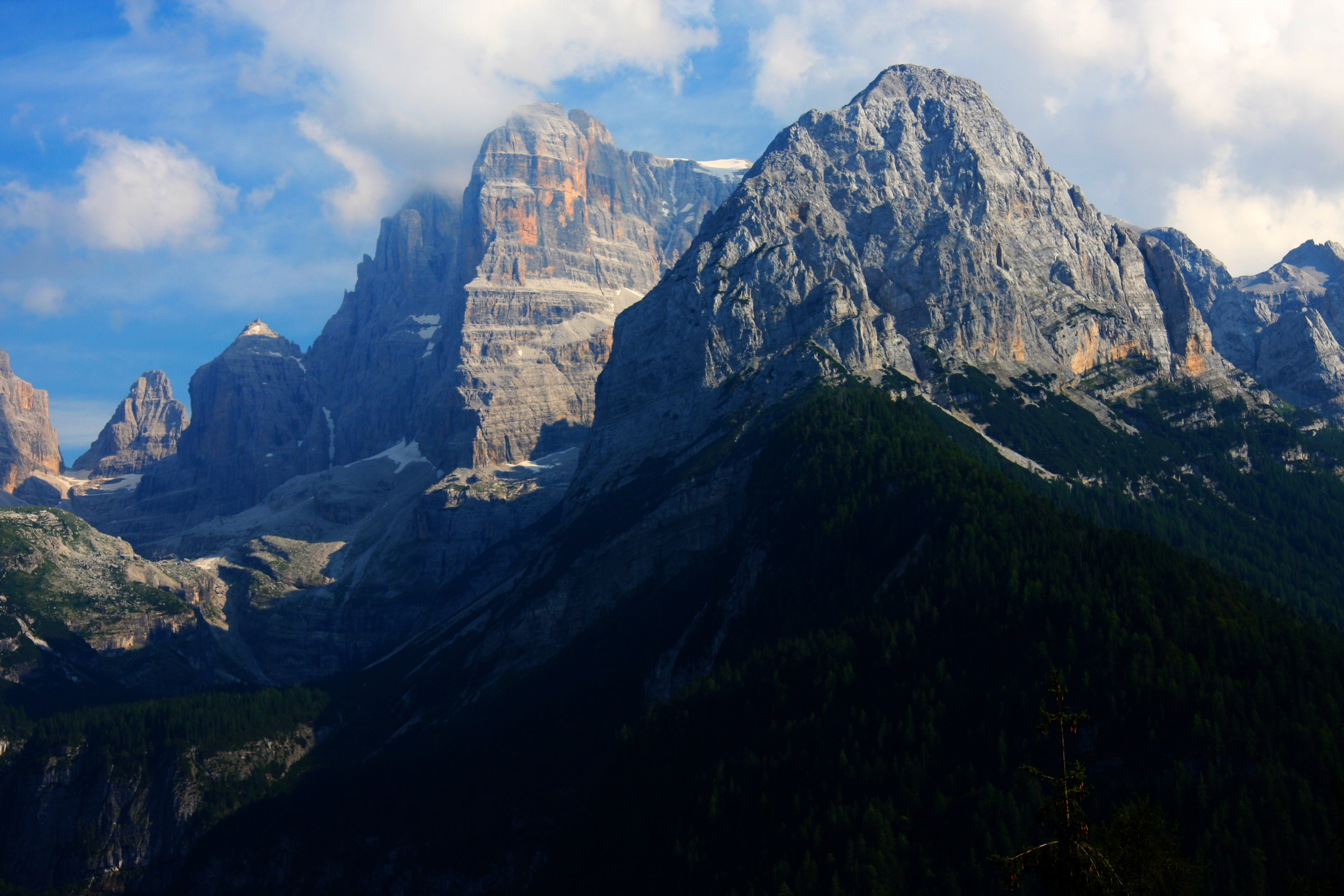 Cima Brenta from Val Rendena